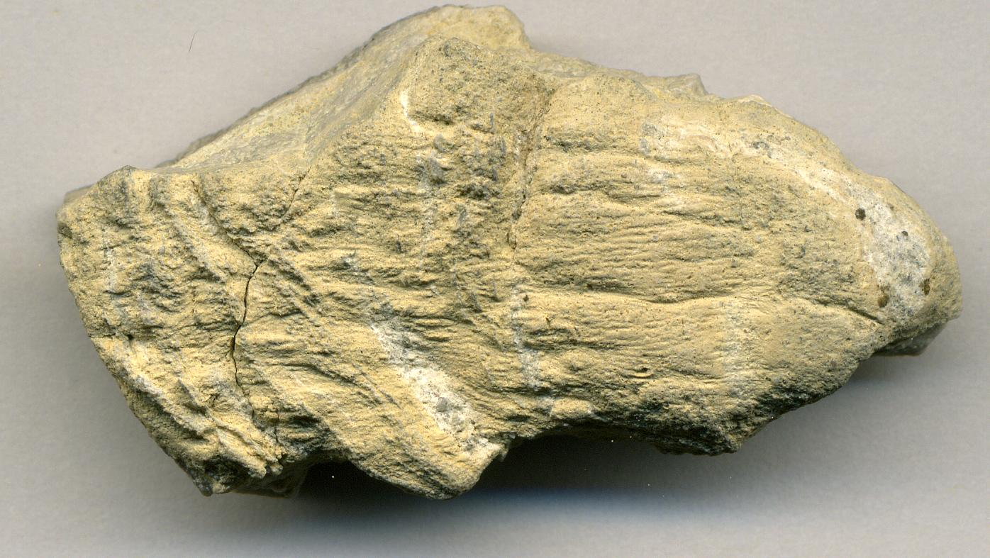 Kofelsite (4.1 cm across) - kofelsites (also spelled “koefelsites” and “köfelsites”) have the appearance, texture, and feel of pumice. Samples are often called “pumice of Köfels”. They date to about 7815 B.C. (± 100 years) (near-earliest Holocene). The specific origin of kofelsite rocks is uncertain & debated. The rocks are found in a landslide deposit in western Austria. Researchers have suggested that the landslide was impact-triggered. The kofelsite samples in the landslide deposit thus may be impactites (fused rocks from the heat of impact). Some workers have suggested that the rocks are frictionites (fused rocks from landslide heating). Locality: Köfels Structure (apparent impact-generated landslide deposit & scar), just east of the town of Köfels & just west of the town of Niederthai, Ötz Valley (Ötztal), Tyrolia (Tirol Province), western Austria.